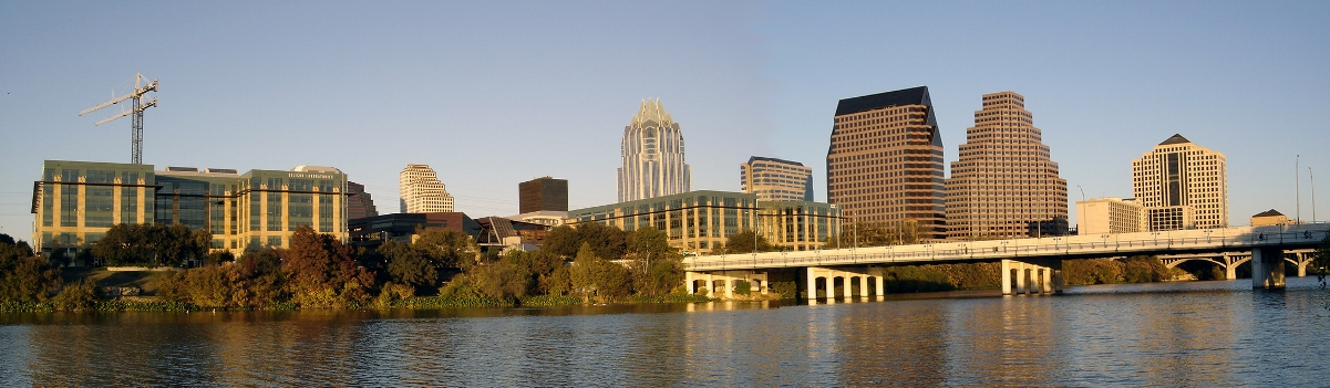 I am the photographer, and editor of the image. s